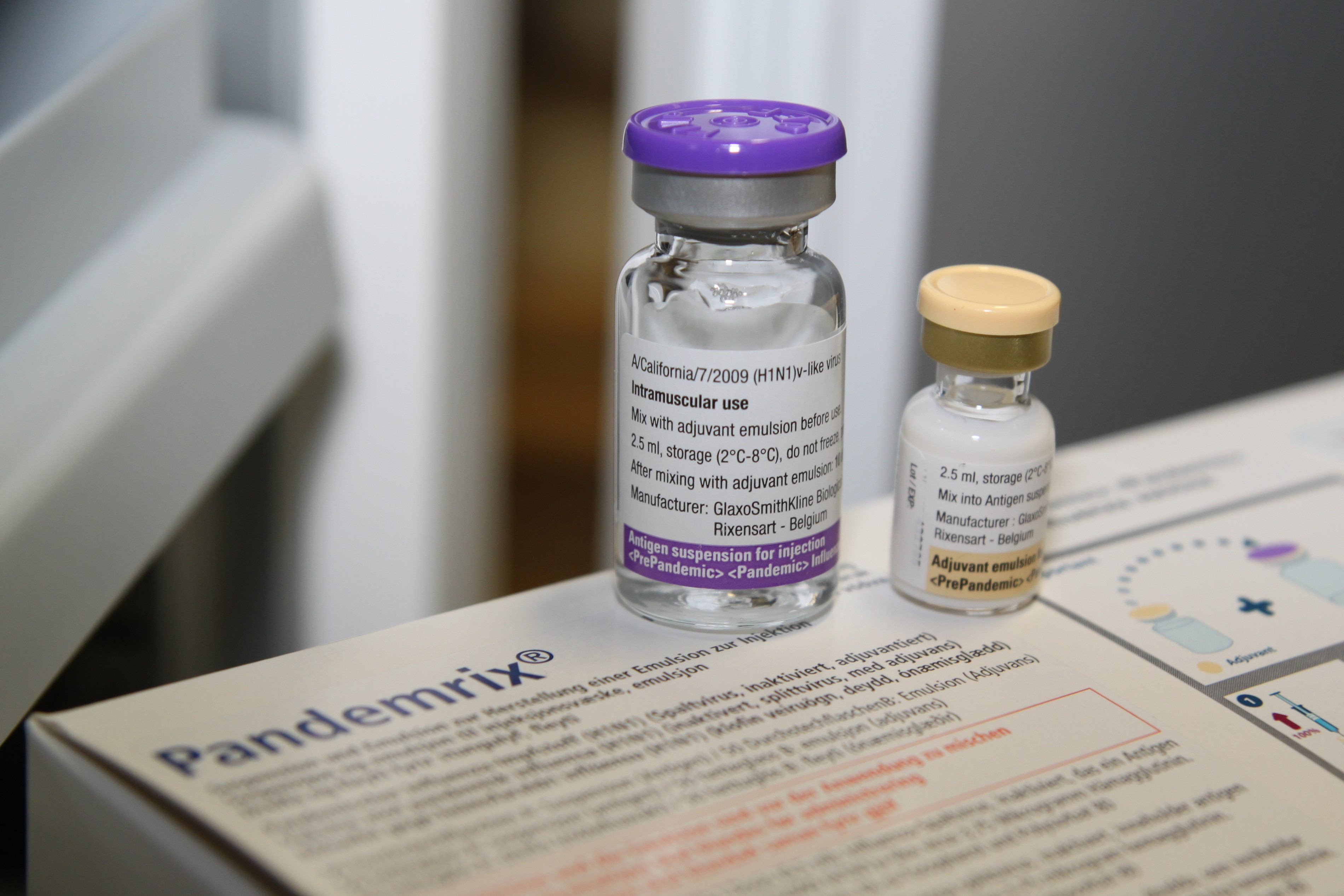 Pandemrix, 2009 flu pandemic vaccine produced by GlaxoSmithKline. Big ampulla with purple cap contains antigen solution. Small ampulla with yellow cap contains immunologic adjuvant AS03 in a emulsion.